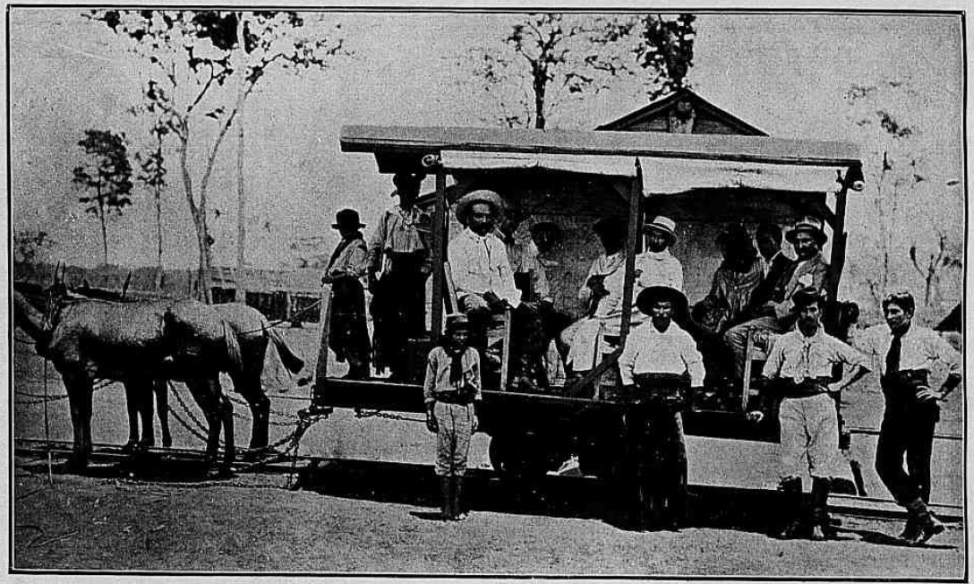 Decauville line of Matte Laranjeira, between the upper and lower Paraná. It's from this form that one travels by the Seven Falls (Sete Quedas). A ILLUSTRAÇAO BRAZILEIRAN. 116—16 de Março de 1914